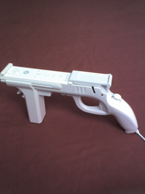 Wii Light Gun with Wii Remote and Nunchuk attached